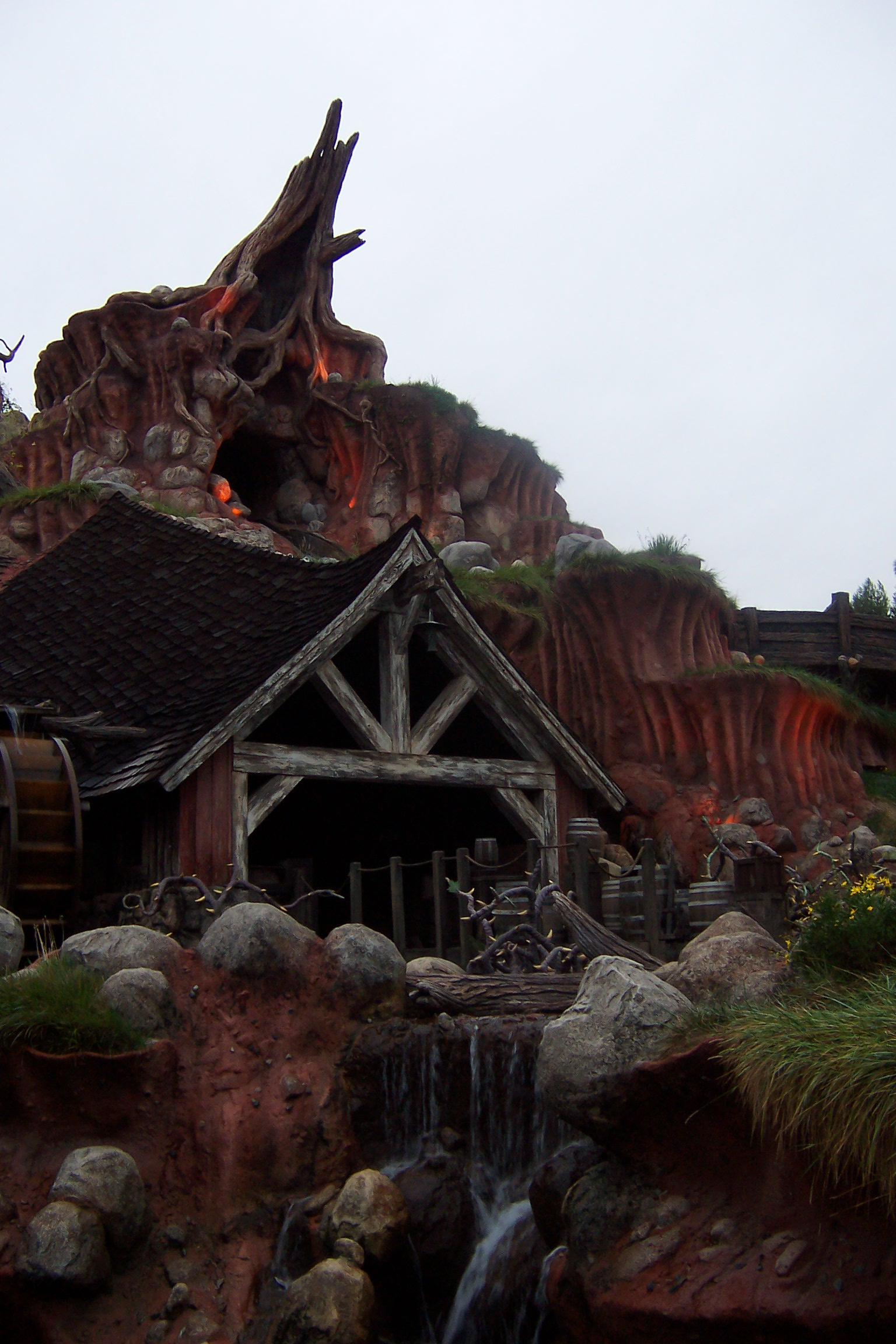 Splash Mountain in Disneyland Anaheim